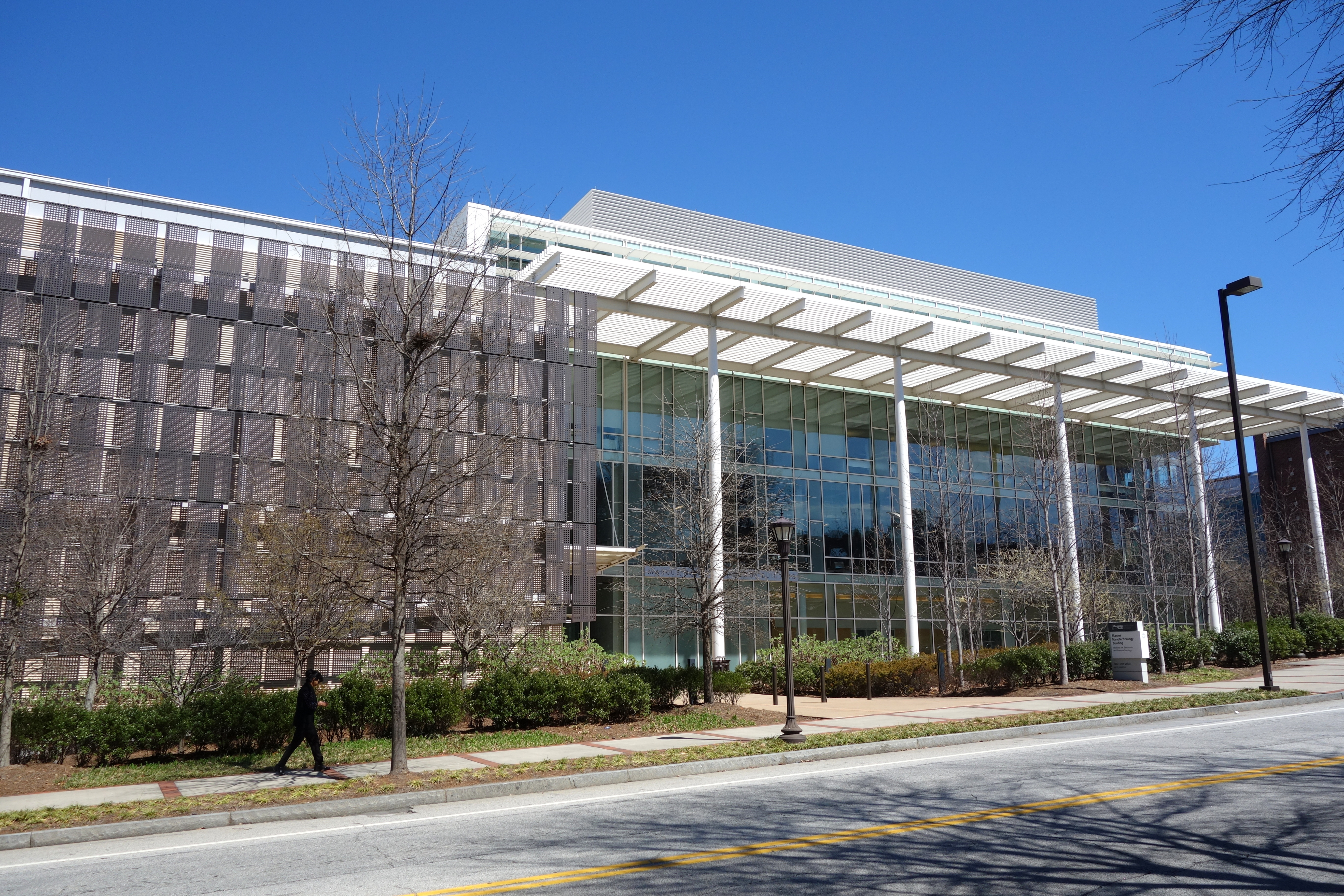 Building on the campus of Georgia Institute of Technology, Atlanta, Georgia, USA.